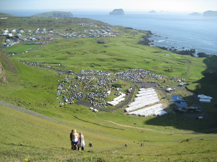 Herjólfsdalur, a valley in Vestmannaeyjar, Iceland, during the island's biggest festival, Þjóðhátíð, in the year 2010. Along with the main island, Heimaey, the six islands at the top of the image from left to right are: Suðurey, Hellisey, Geldungur, Súlnasker, Brandur and Álfsey. Surtsey is not visible. Taken on top of Dalfjall, facing south.